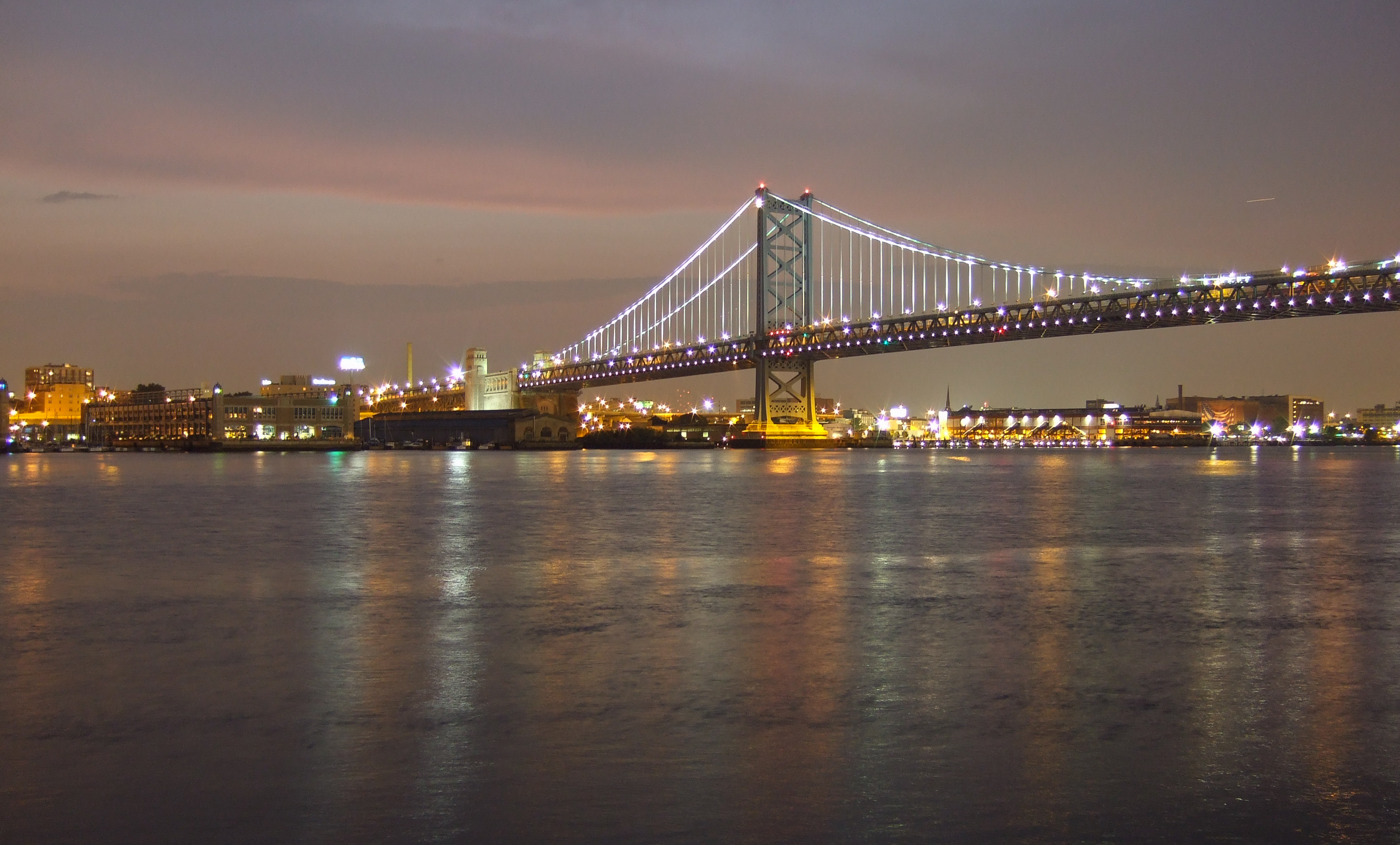 Philadelphia, Pennsylvania, USA